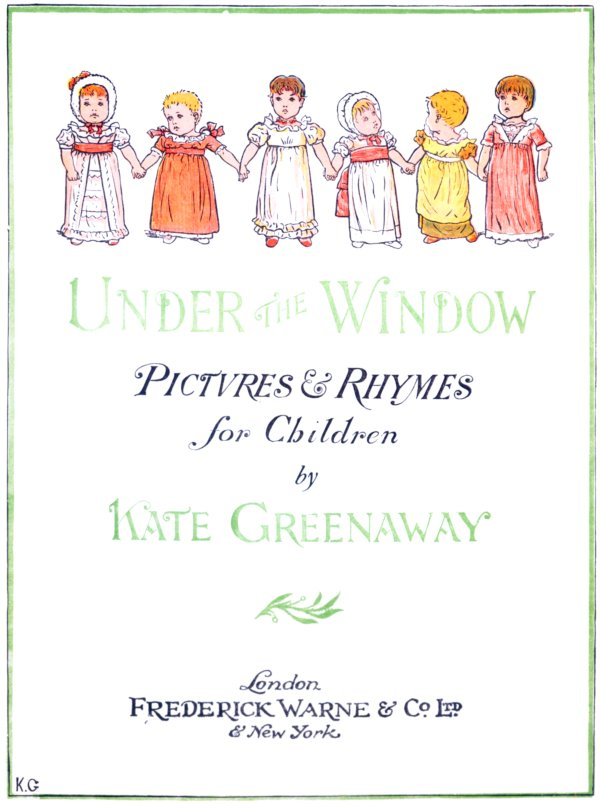 Title page from "Under the Window" by Catherine Greenaway